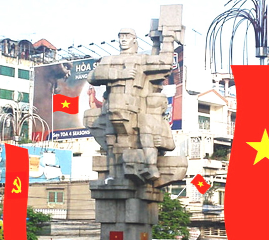 Picture